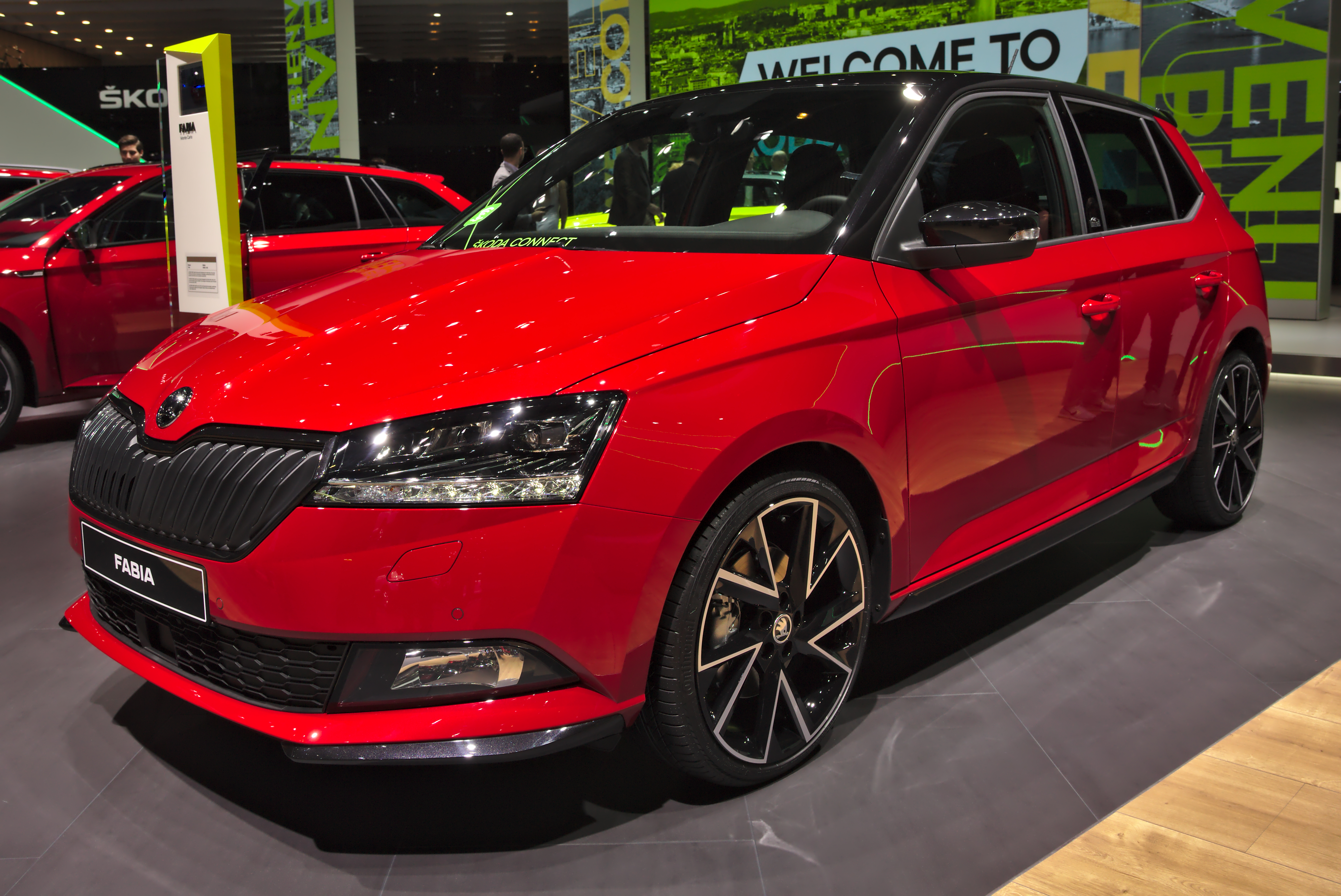 Skoda Fabia at Geneva Motorshow 2018